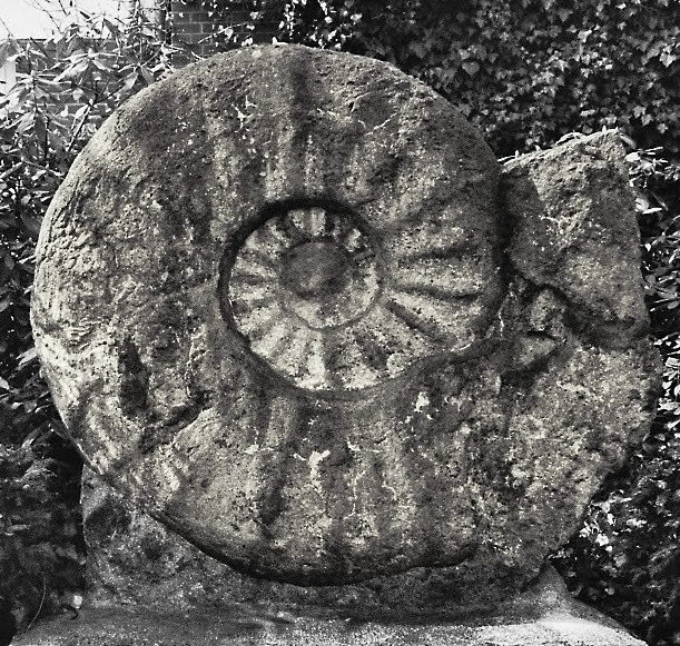 Cast of the world largest known ammonite Parapuzosia seppenradensis (originally Pachydiscus seppenradensis) in Seppenrade, Germany